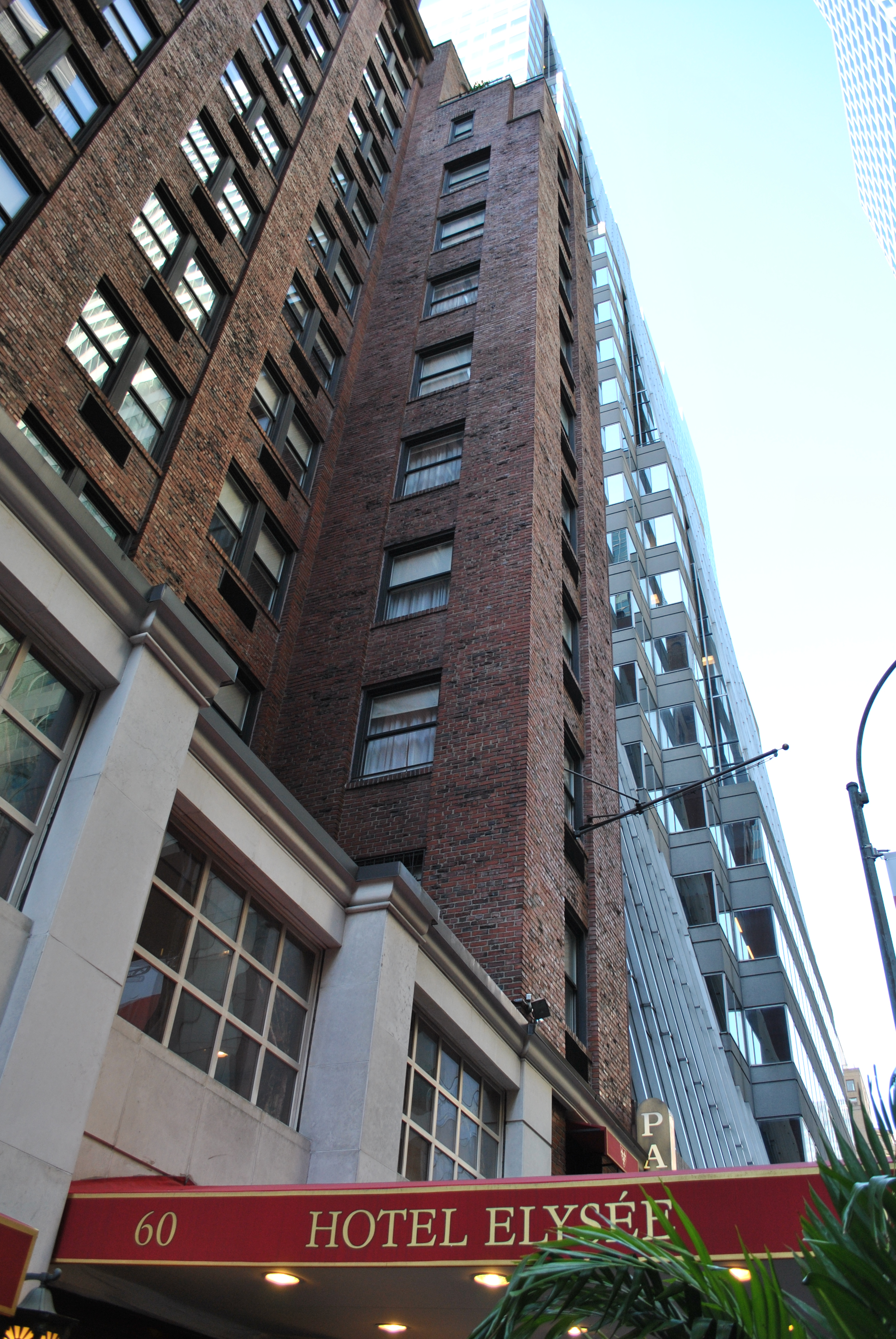 Image originally published in Queer Places, Vol. 1.1: Retracing the Steps of LGBTQ people around the World